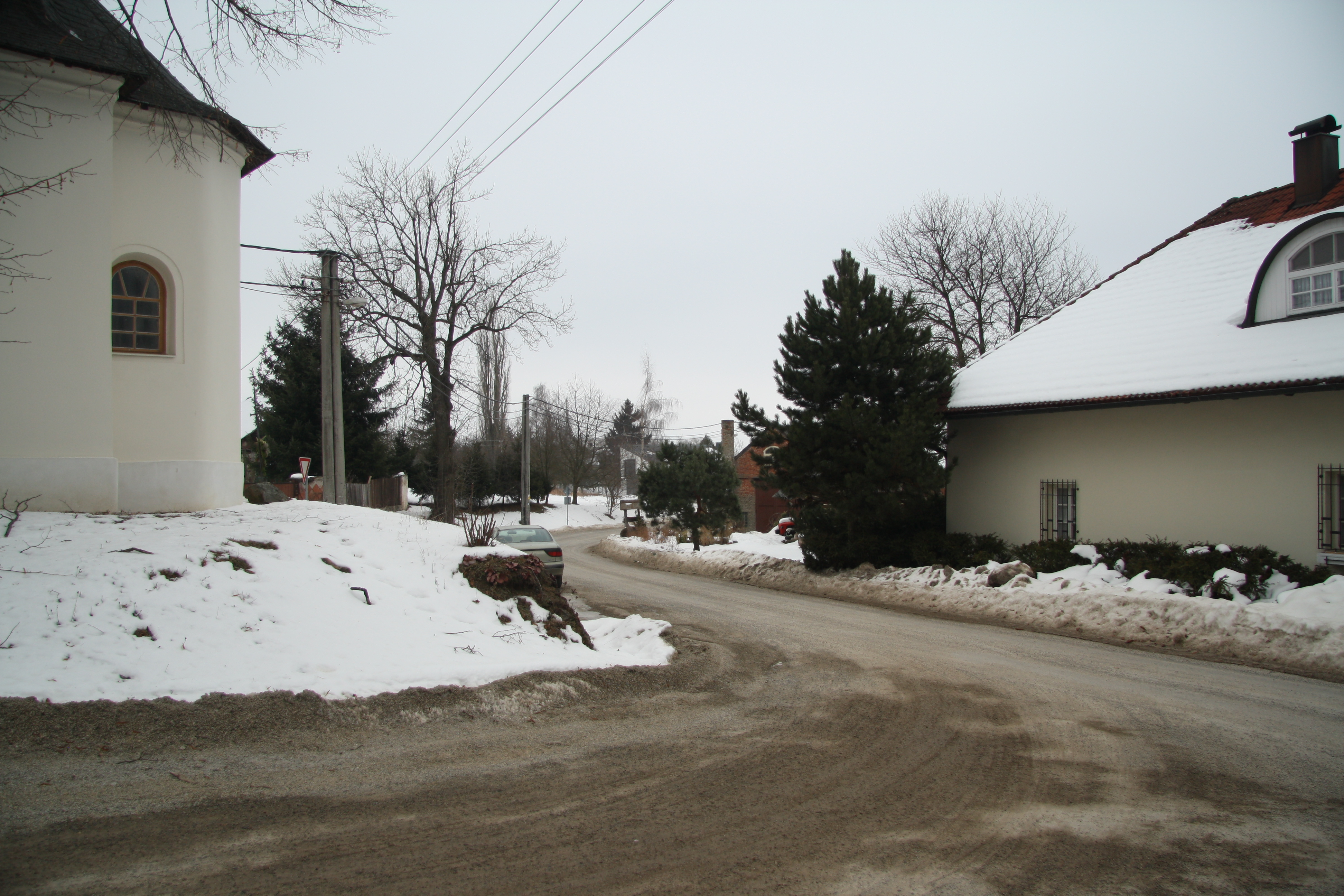 Down part of Popice, Jihlava, Jihlava District.